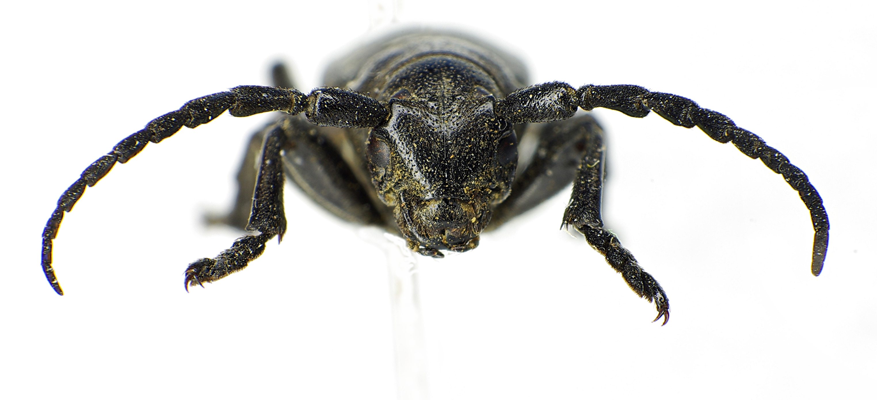 Carinatodorcadion aethiops, front